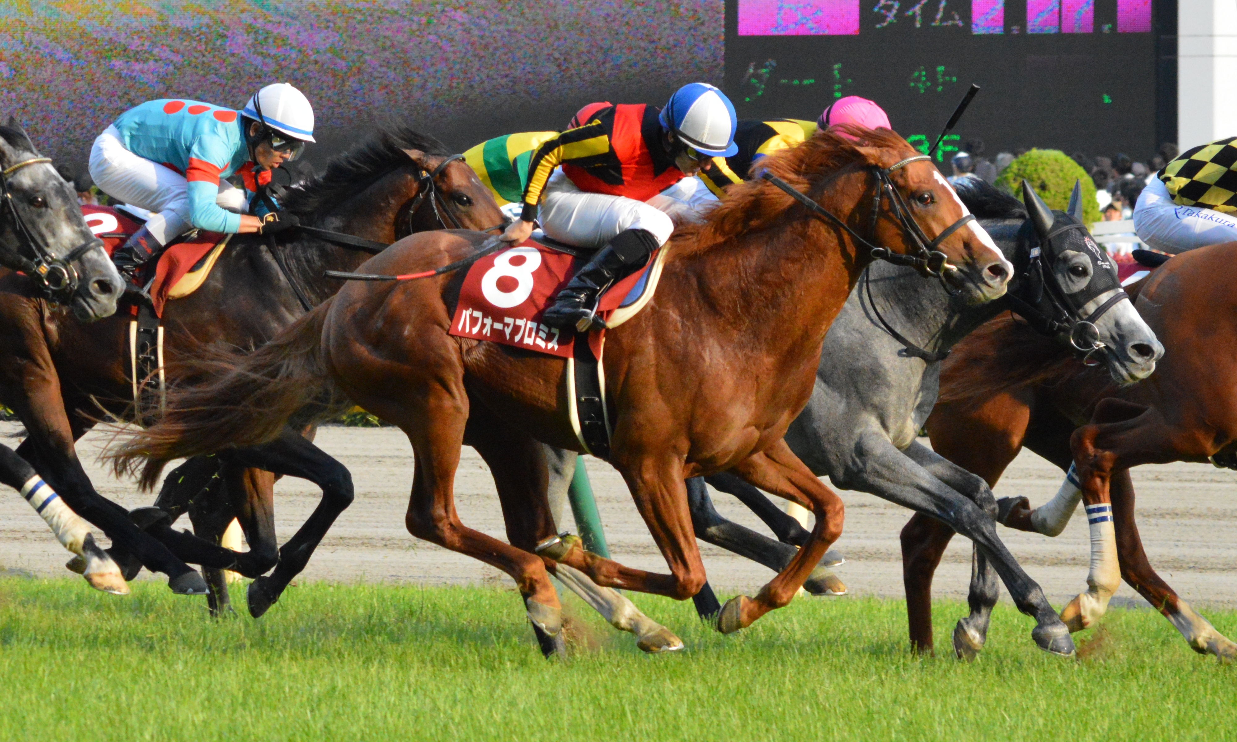 Japanese race horse Perform A Promise at Tokyo racecourse. Tokyo (JPN) 27 May 2018 Meguro Kinen (Grade 2 Handicap) (Turf) (4yo+) 1m41/2f Firm RankHorse NameOddsAgeWgtJockeyTrainer1stWin Tenderness (JPN)167/10H58-11Hiroyuki UchidaHaruki Sugiyama3rdPerform A Promise (JPN)29/10FH68-7Mirco DemuroHideaki FujiwaraOthers are omitted. (16 horses entered in a race.)